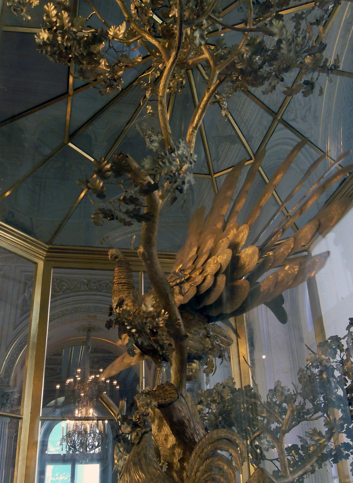 The Peacock Clock in the Pavilion Hall of the Hermitage Museum, designed by James Cox in 1772.